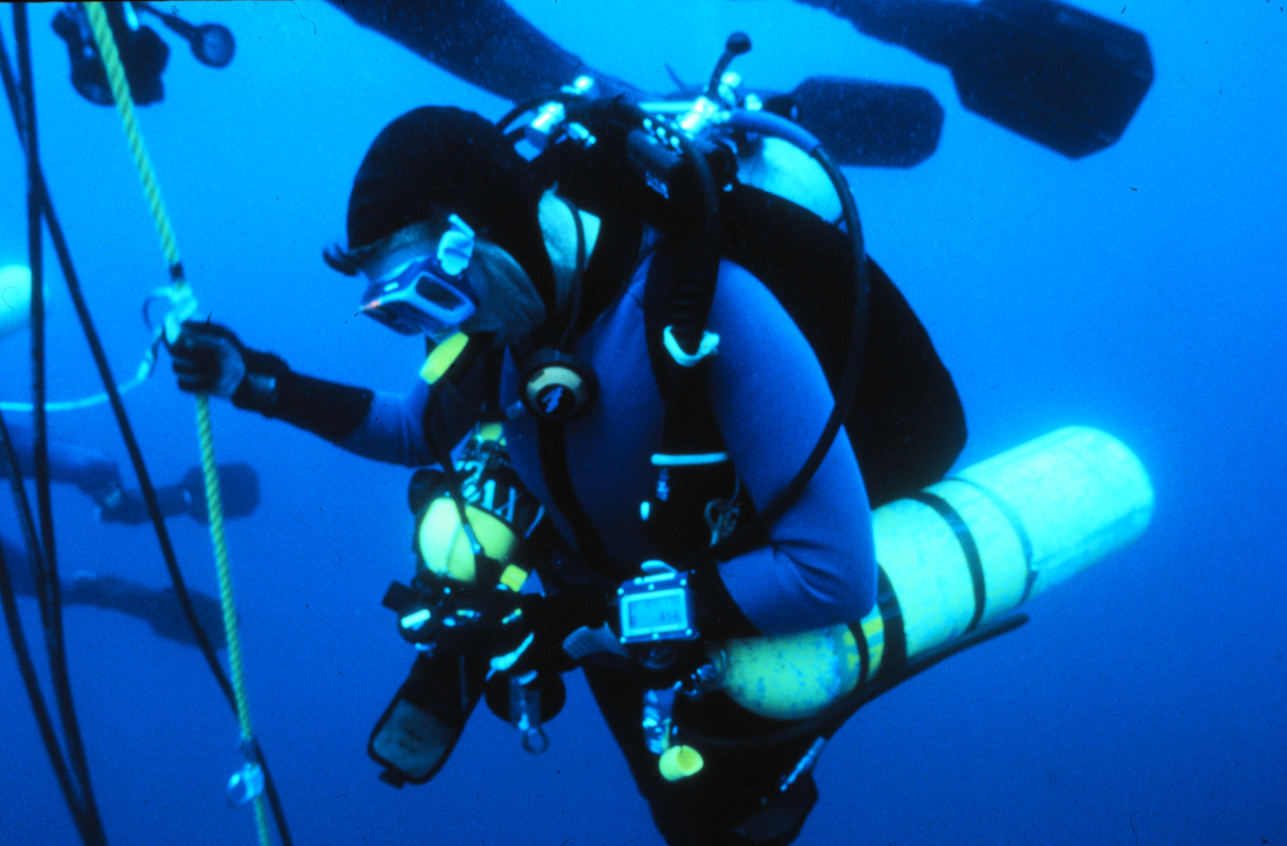 Technical diver, using mixed gases to dive to 60 meters, decompresses.